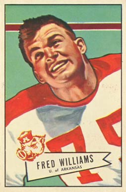 American football player Fred Williams (defensive lineman) on a 1952 Bowman Large card.